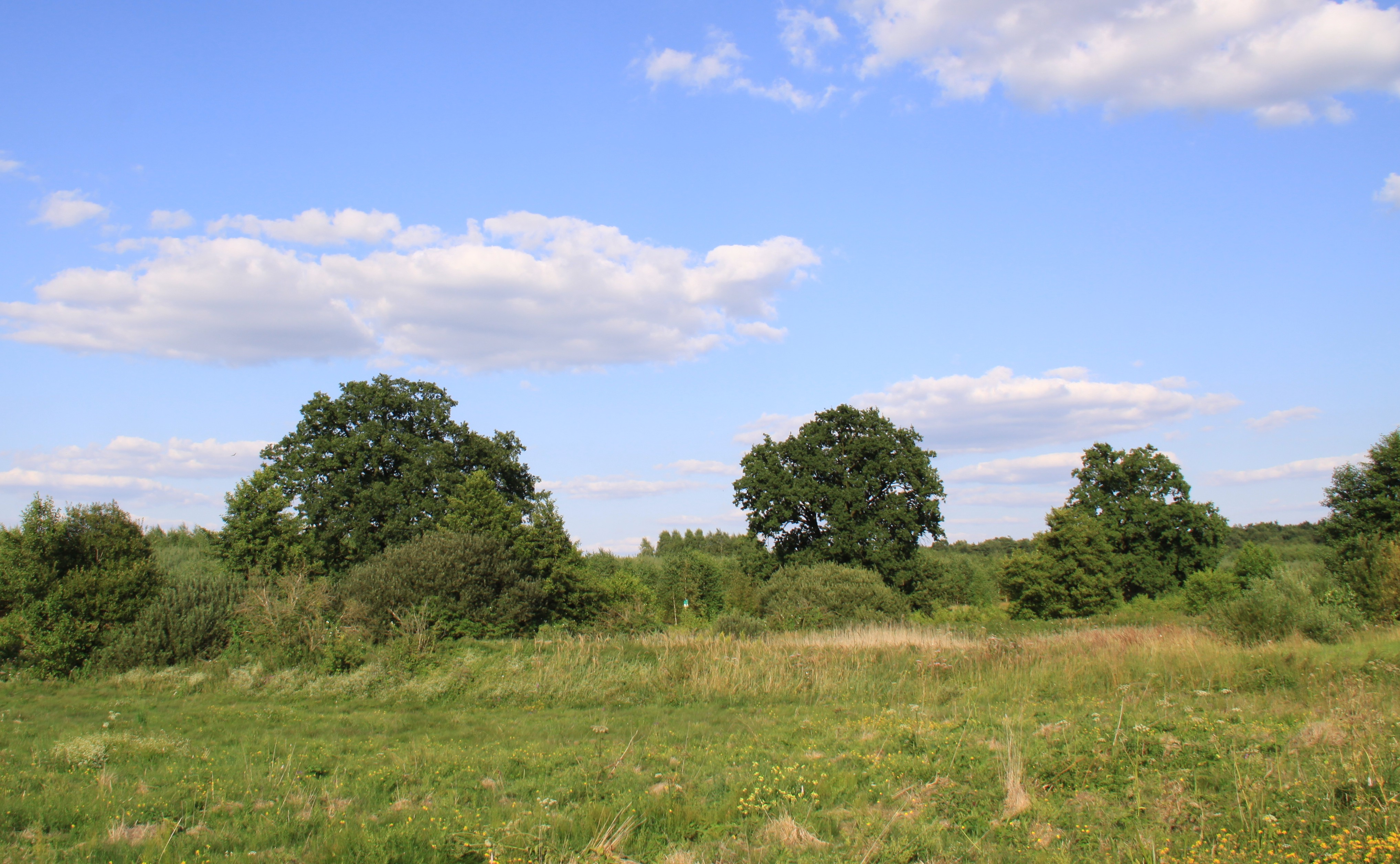 Kameduły - 3 oaks